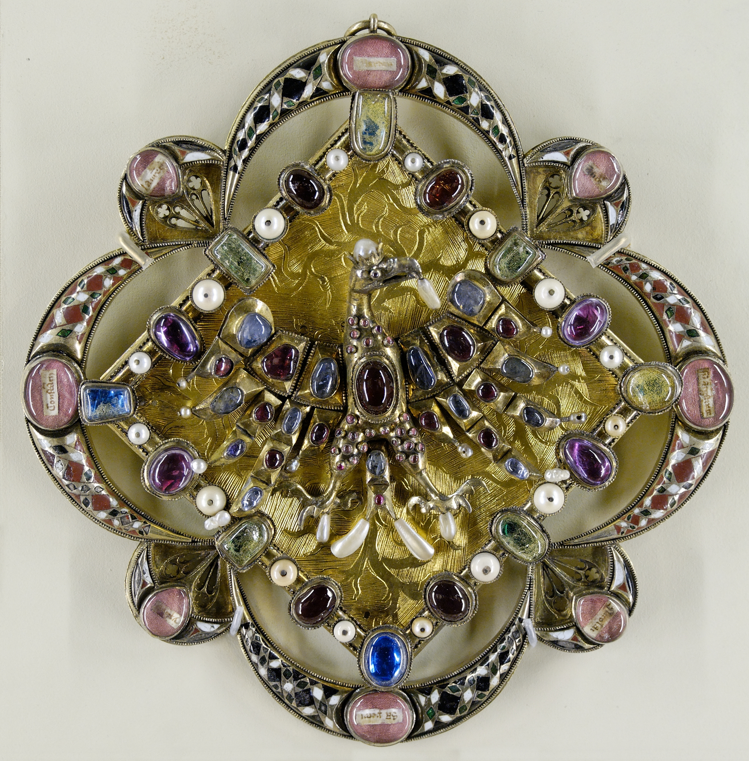 Clasp-reliquary with eagle. Engraved, openwork and gilt silver; champlevé and enameled silver; gems and pearls. Bohemia (?), middle 14th century.